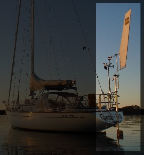 Image of OE 36 yacht with highlighting of self-steering device